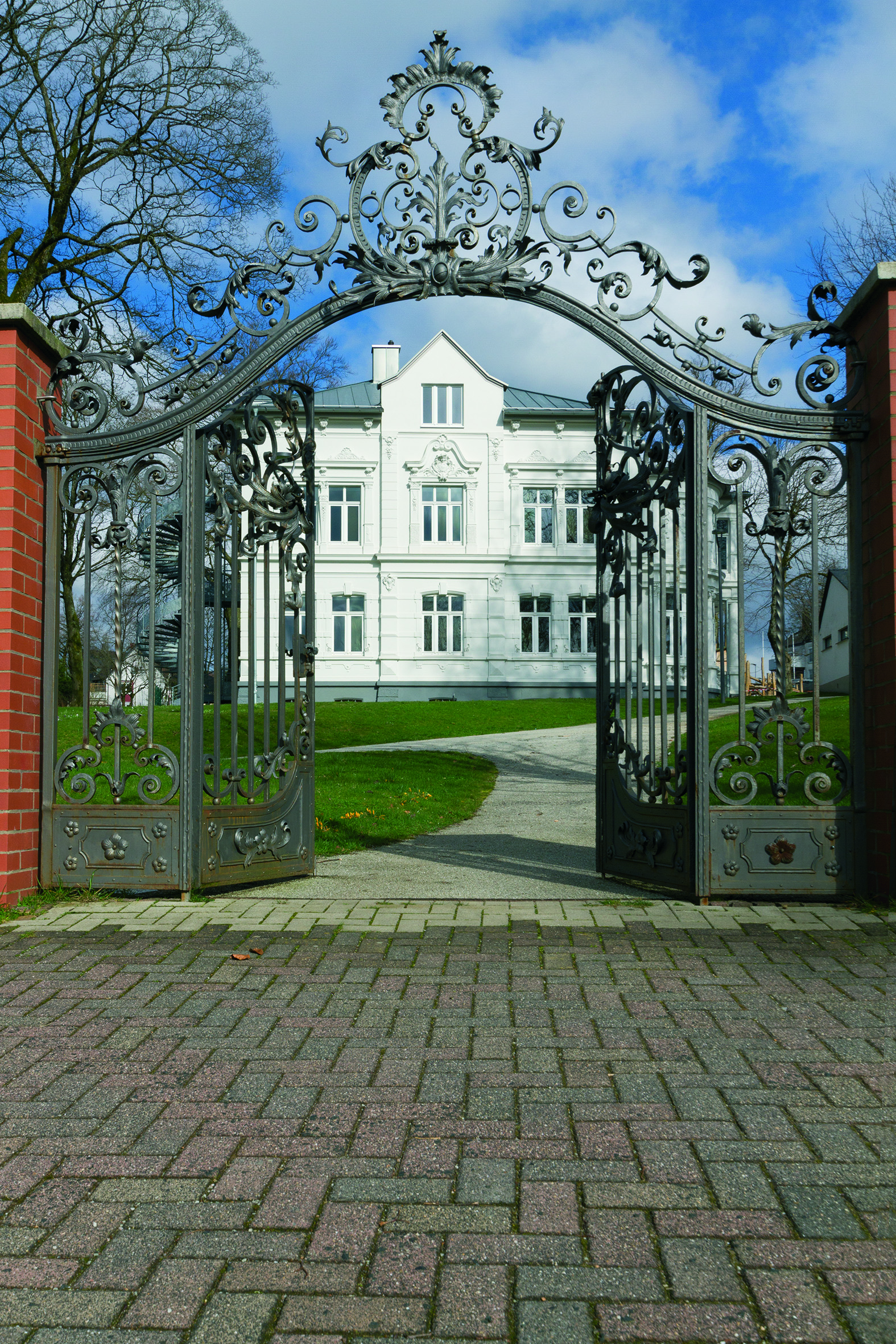 Museum